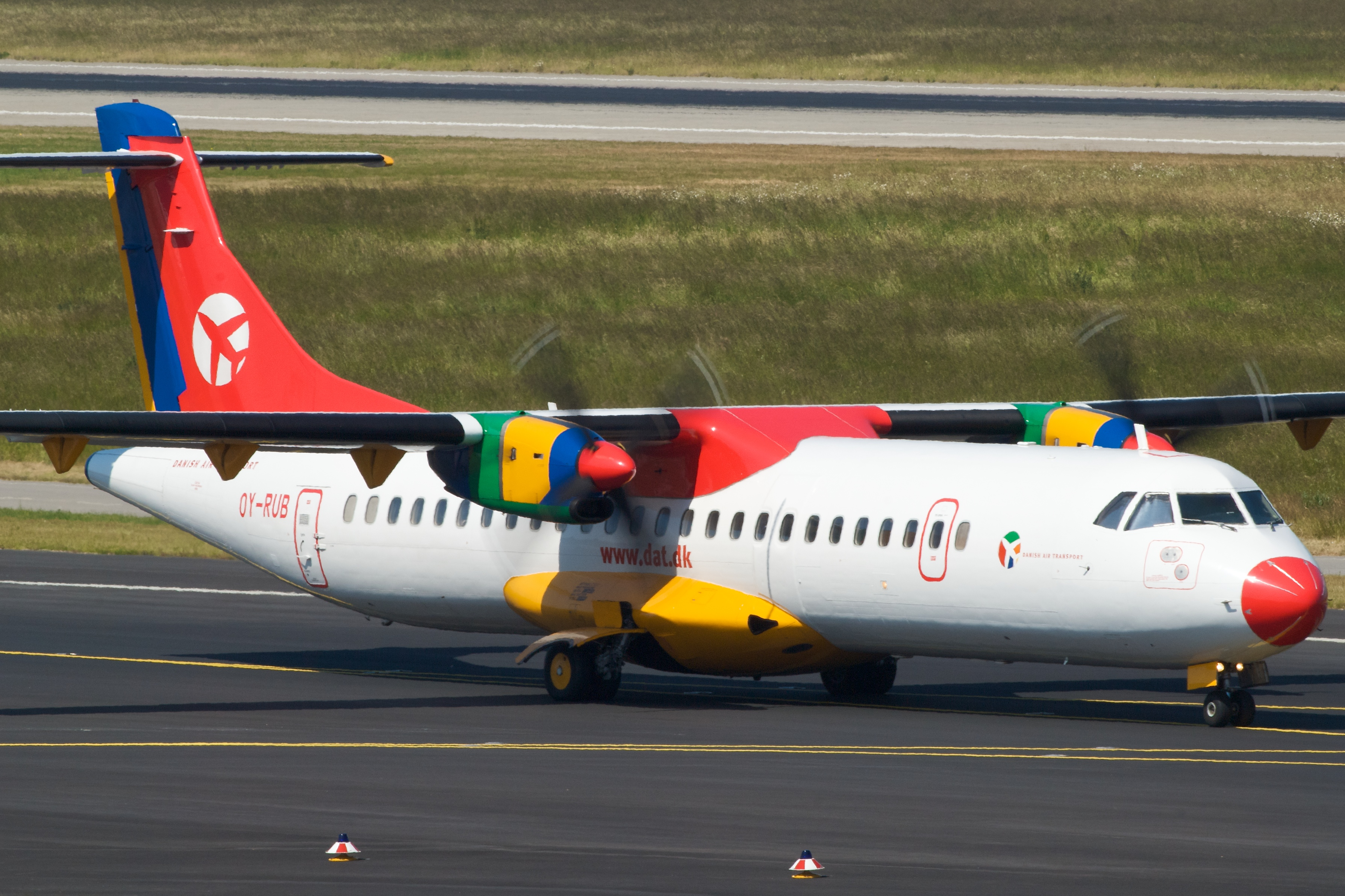 Danish Air Transport ATR-72 OY-RUB in Düsseldorf International Airport.